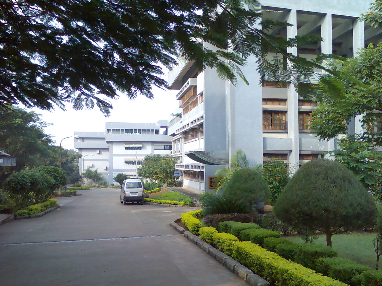 A photo of Padre Conceicao College of Engineering, Verna, Goa, India, as seen from the entrance.